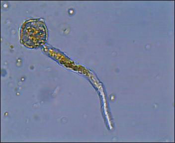 Puccinia recondita f.sp. tritici on Triticum aestivum, germinating uredospore (400x)